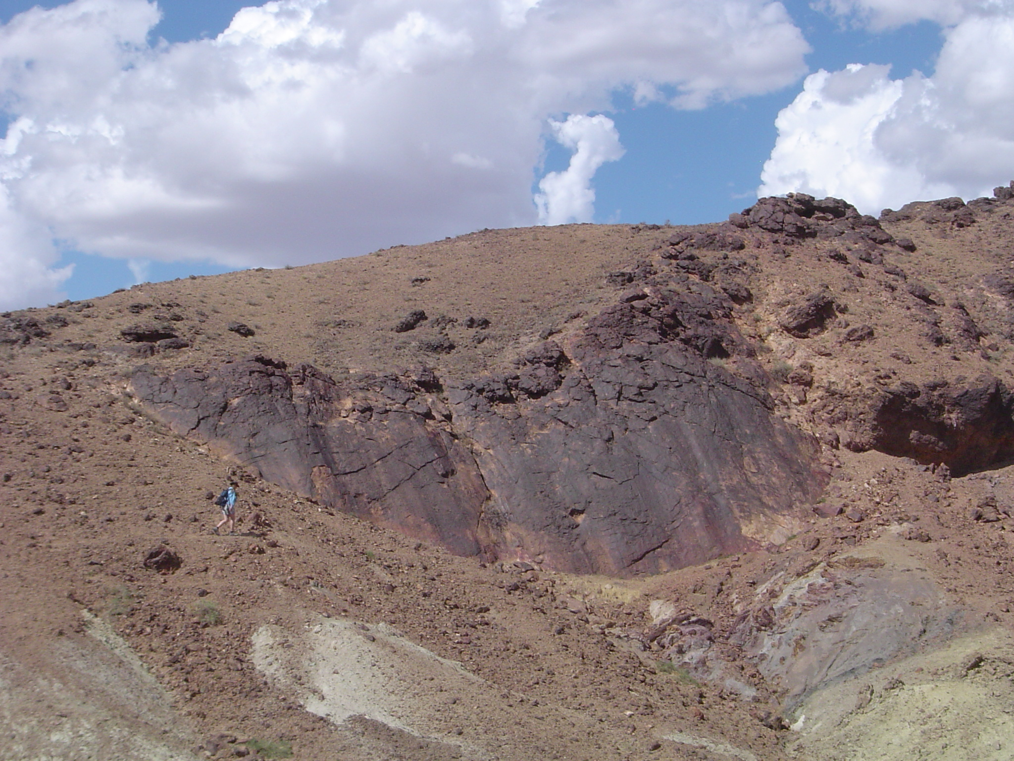 A Fault-line scarp from the Gobi of Mongolia. The mechanism on this fault is a reverse motion.